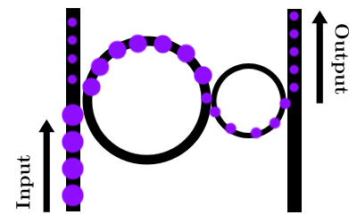 A double ring resonator with two rings of different radii.